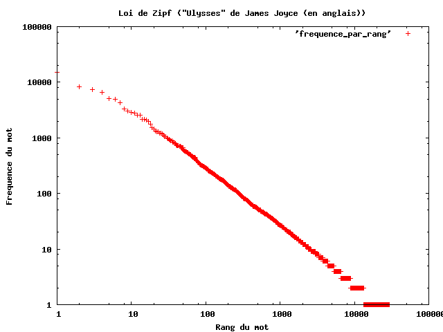 log/log graph of rank/frequency of words in "Ulysses" by James Joyce (Zipf Law)